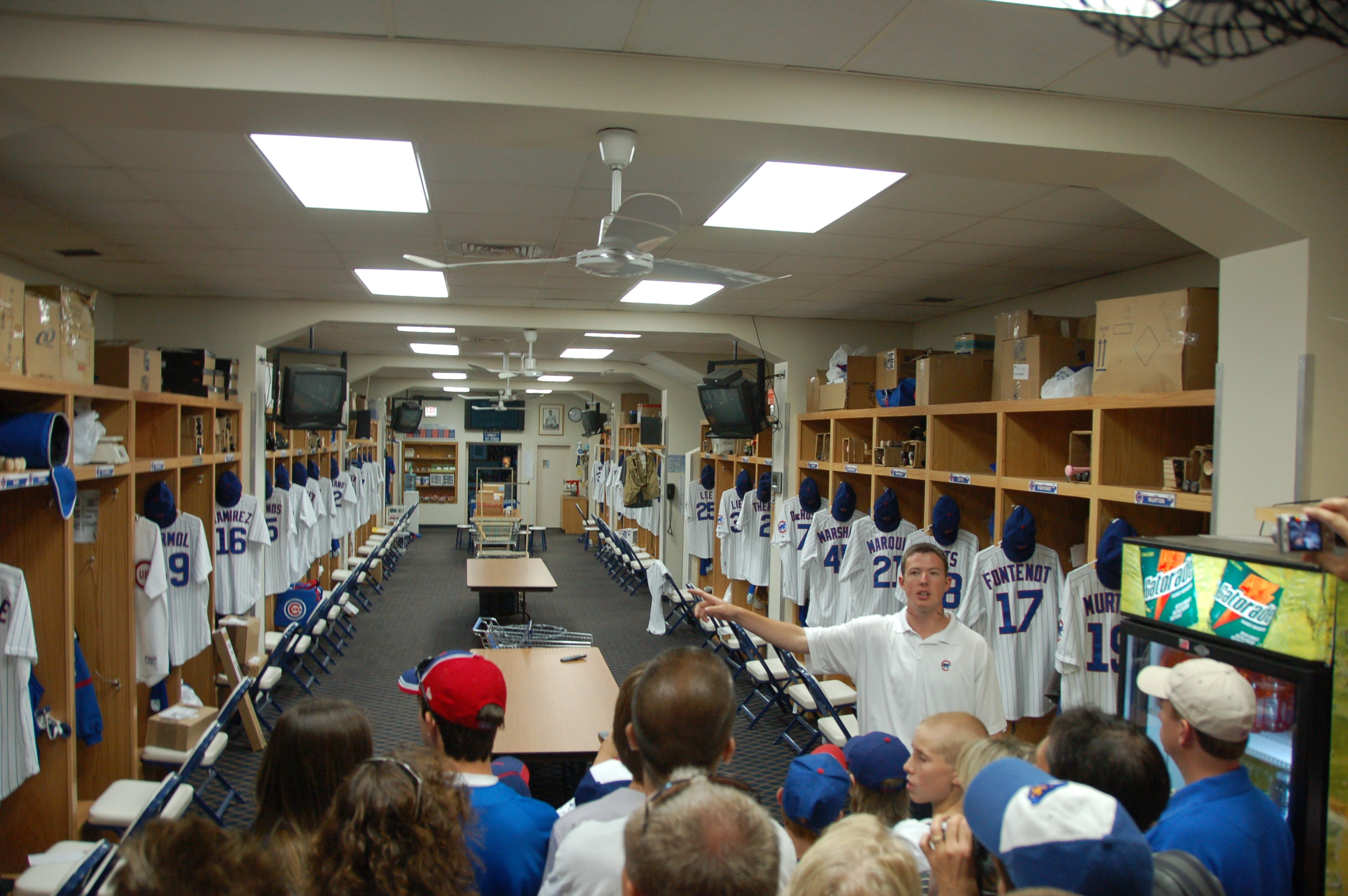 A Photo of the Chicago Cubs locker room at Wrigley Field. Taken by a fan during a tour of the historic ball park.